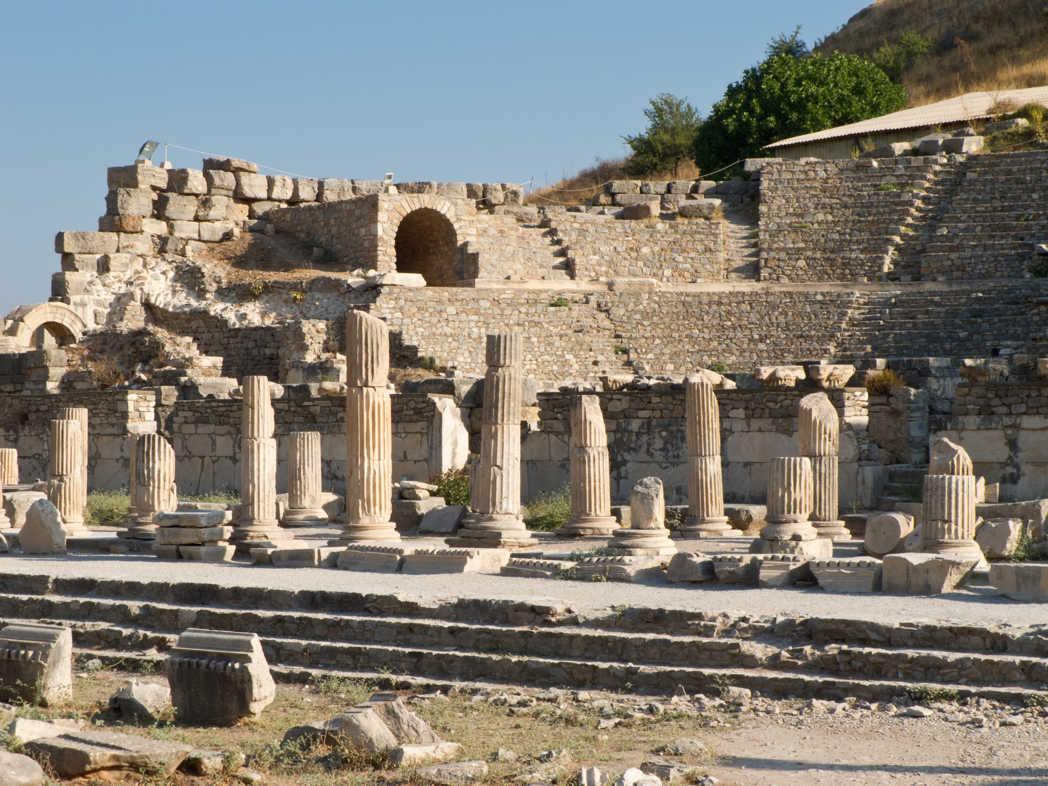 Odeon in Ephesus, in modern-day Turkey.